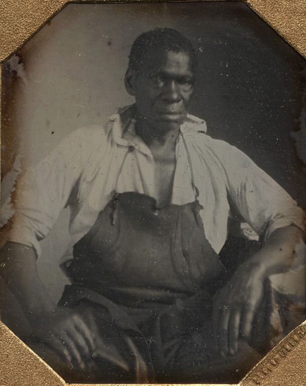 Portrait of Isaac Jefferson (1775-c.1850)